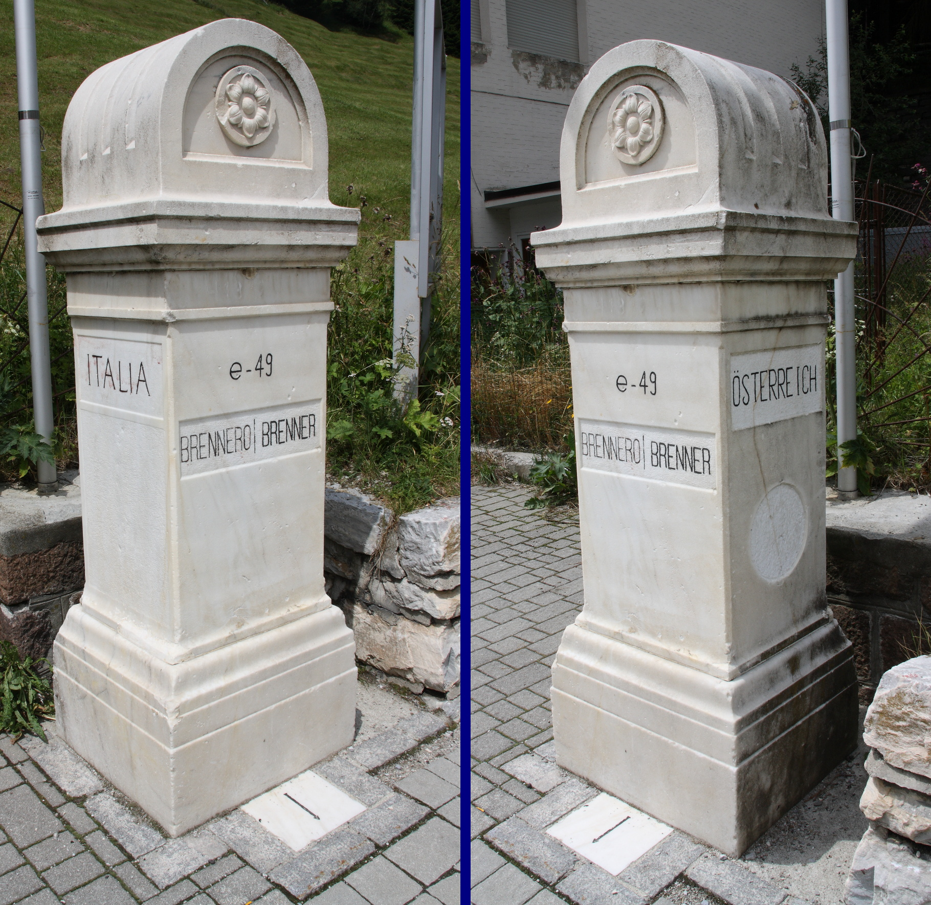 Brenner Pass (Italian: Passo del Brennero